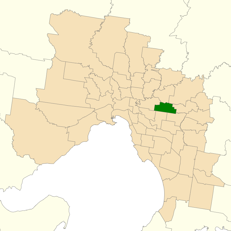 Location of the Victorian electoral district of Box Hill (dark green) in the Greater Melbourne area.